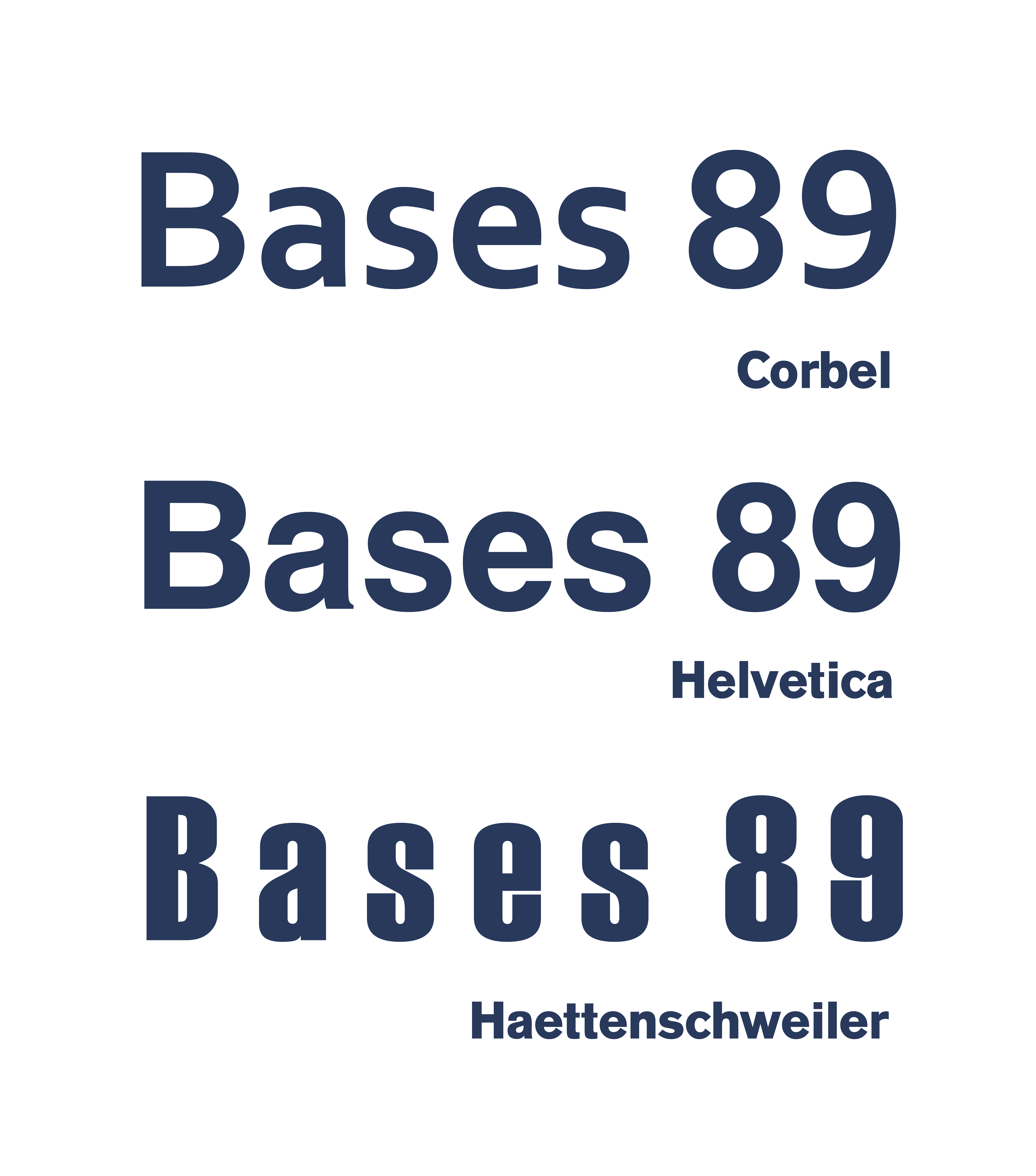 Comparison of apertures in different common typefaces. At top is Corbel, which has very open apertures: this is especially visible in the 'a' and 's' and also in the 'e' and '9' (compare with 8). Next is Helvetica, with more closed apertures. Notice the 'folded-up' appearance of the top of the 'a' and 'e'. At bottom is Haettenschweiler, a thick and highly condensed design with very closed apertures. The 'e' and 's' and 8 and 9 are almost indistinguishable at small size. All are shown in their bold weight apart from Haettenschweiler, which has only one style.